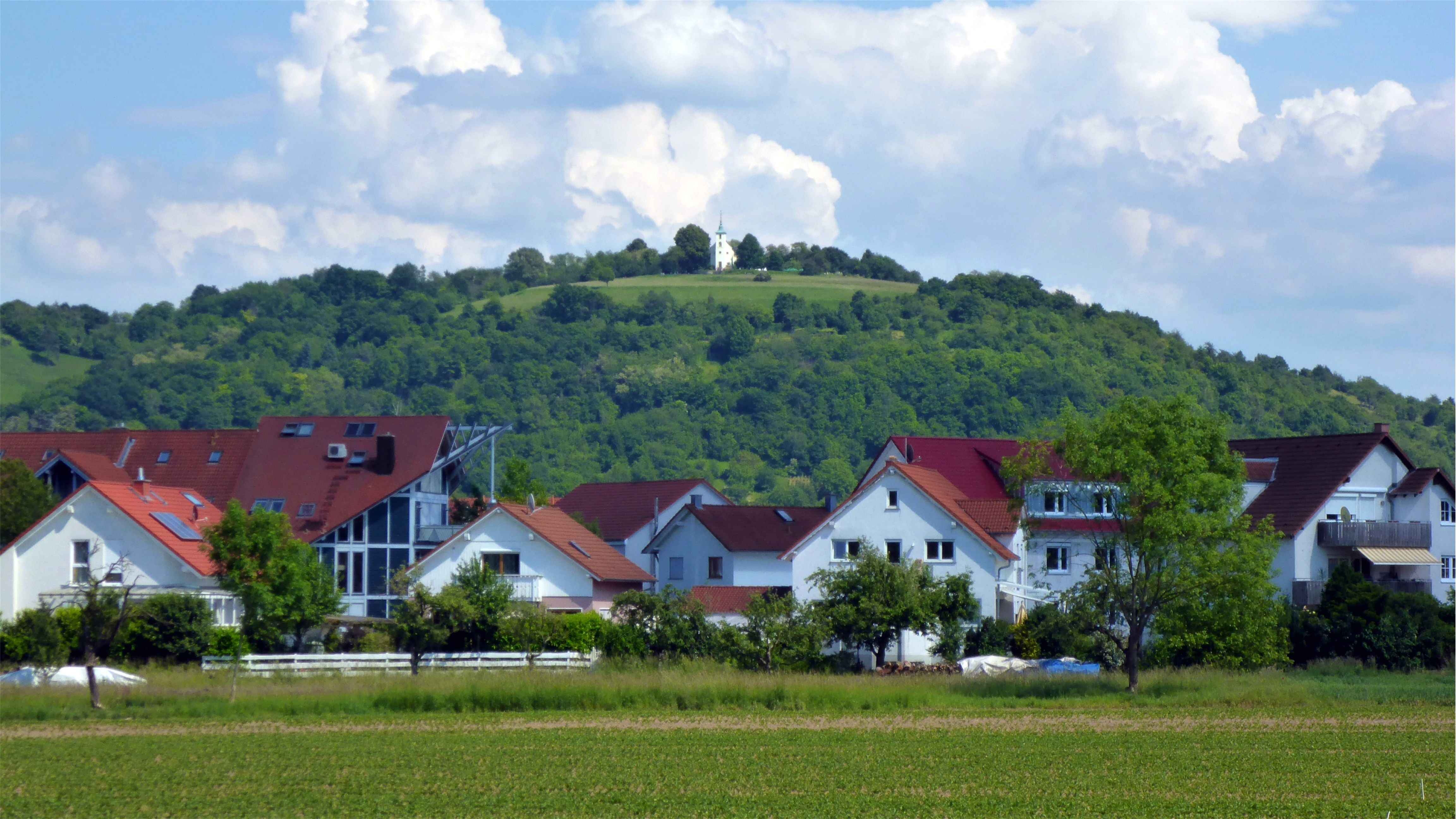 Landschaftsschutzgebiet „Michaelsberg-Eichelberg” is a Protected landscape area in Baden-Württemberg, Germany.